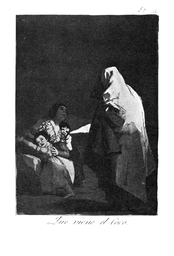 Los Caprichos is a set of 80 aquatint prints created by Francisco Goya for release in 1799.